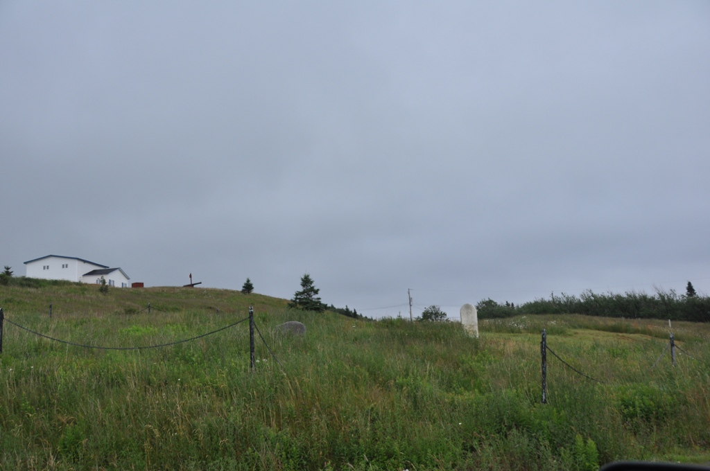 Old Cemetery, Renews-Cappahayden, Newfoundland.